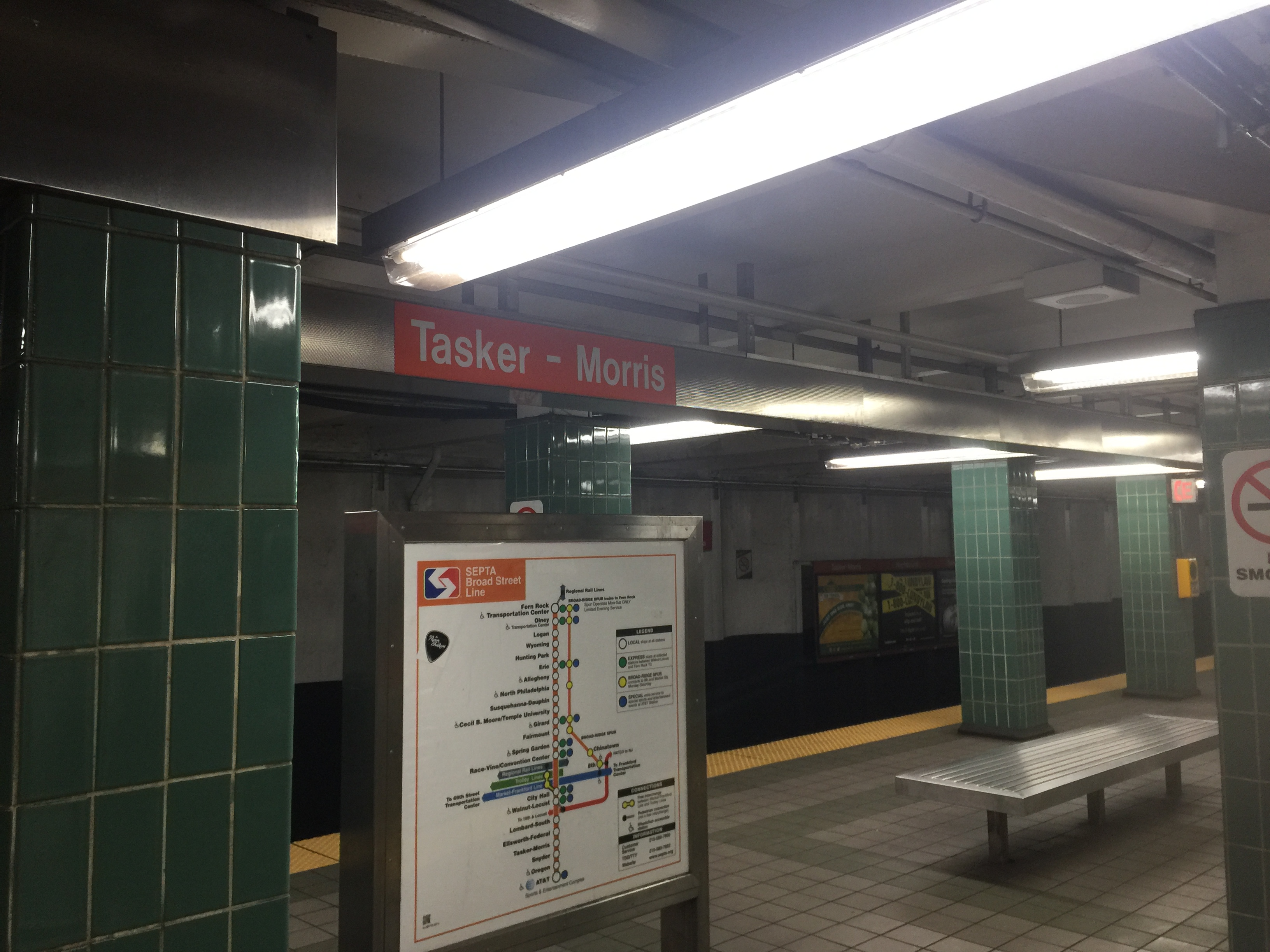 Tasker Morris